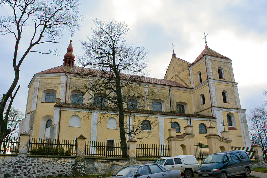 Trakai Church, Lithuania.